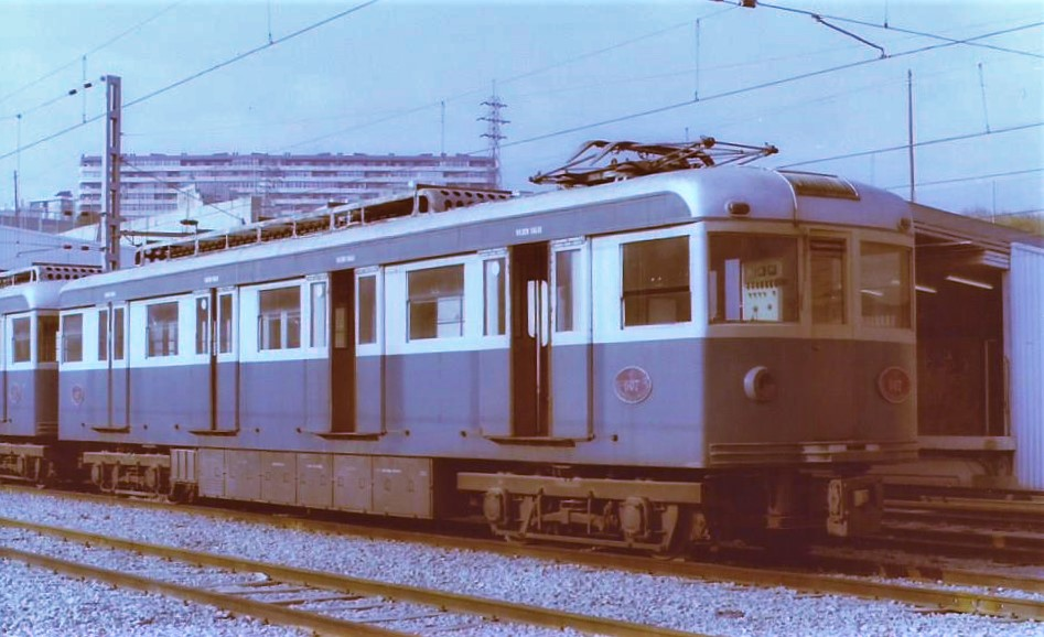 The 607 motor car of the Metropolitan Railway of Barcelona, in the garages of Can Boixeres.